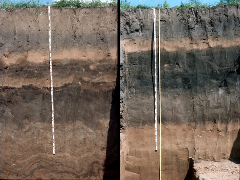 Photographs of excavation profiles